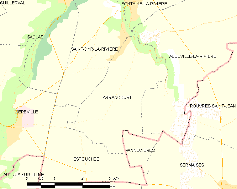 Map of French municipality Arrancourt